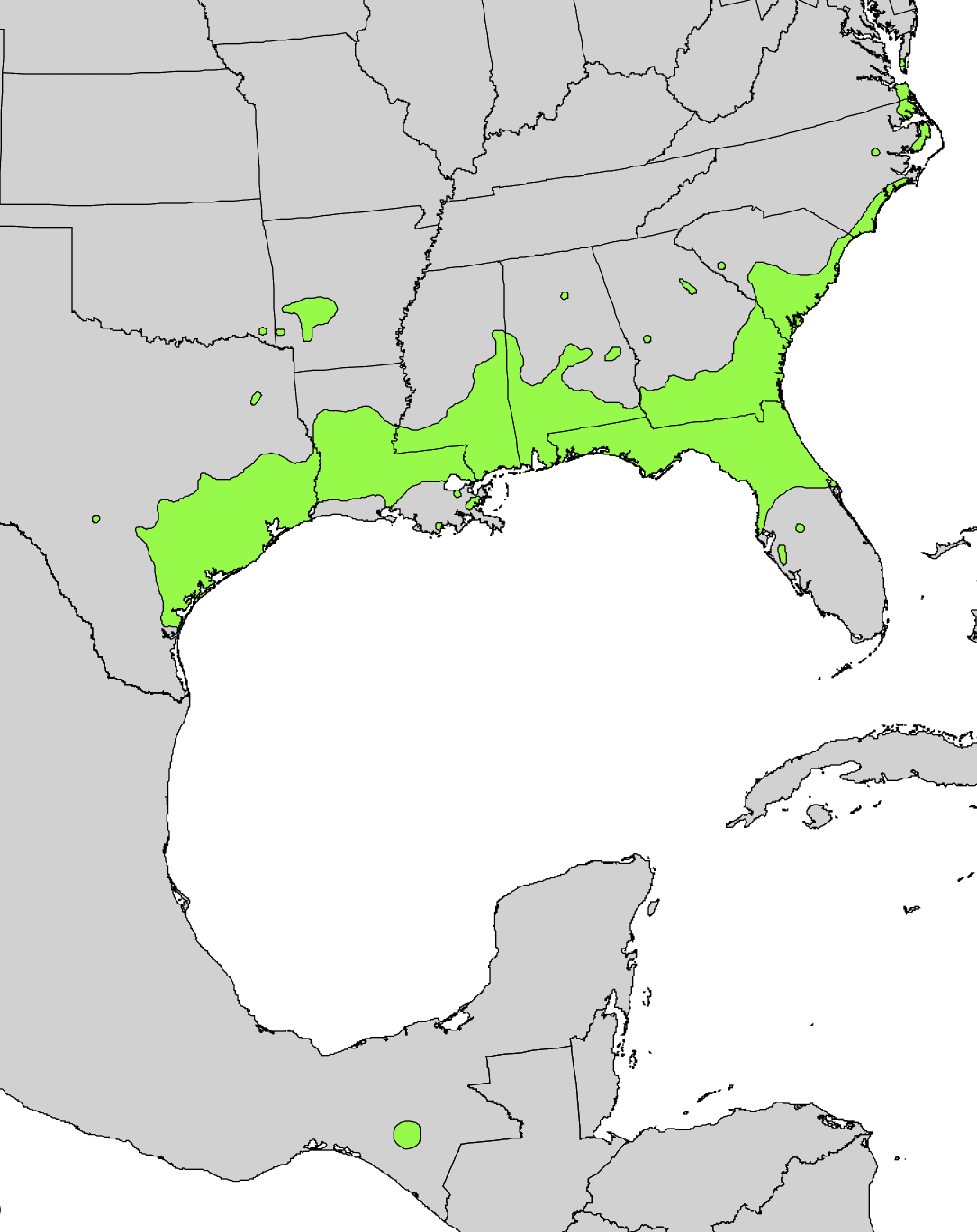 Range distribution map of Ilex vomitoria in eastern North America.